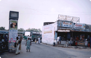 TMM Bus Bay